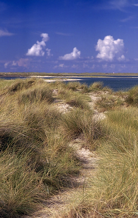 A view of sand duns and beaches taken on the German island of Sylt near the town of List. Taken 2003.